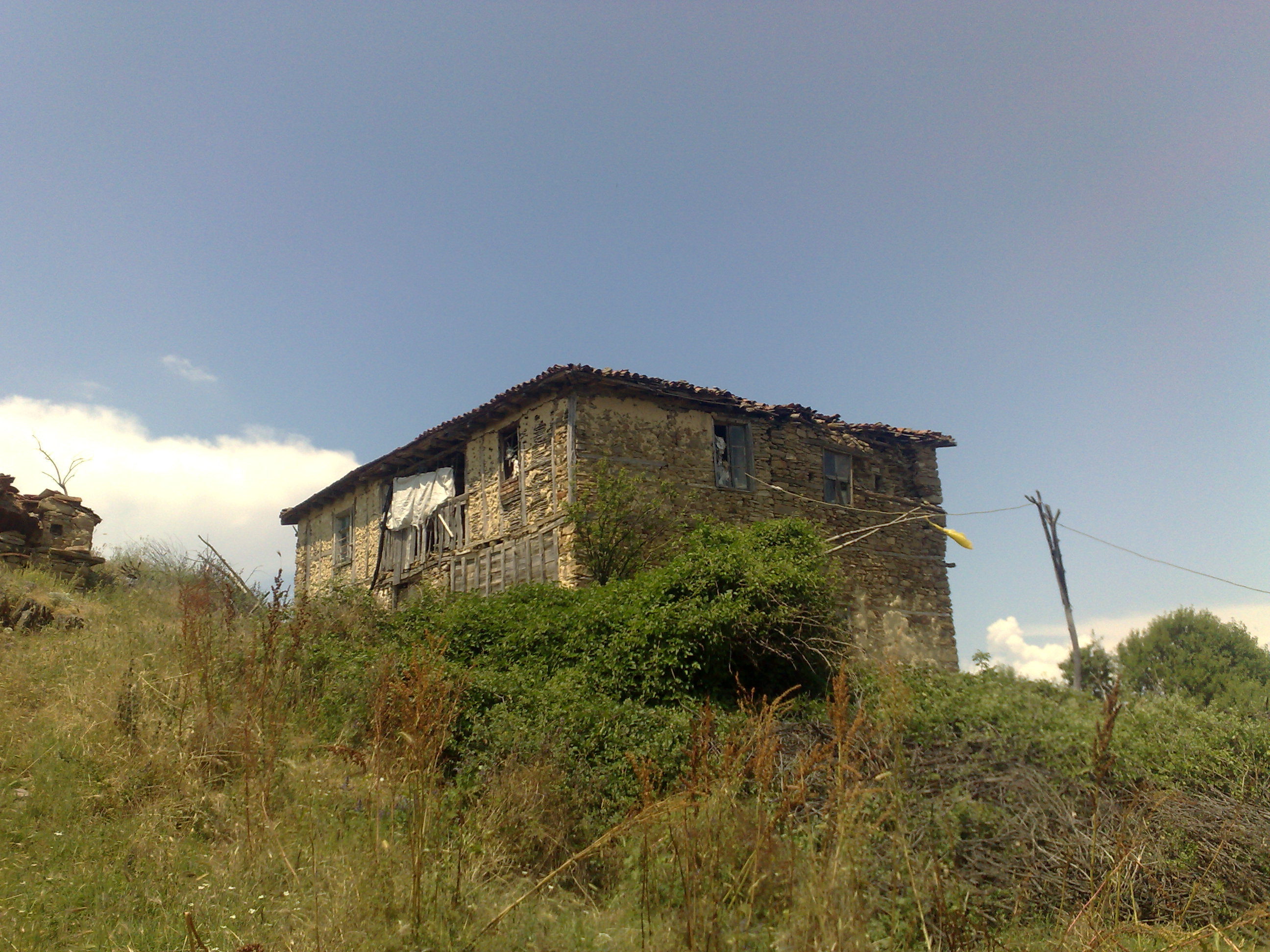 An old Macedonian house in Karabunishte, Macedonia